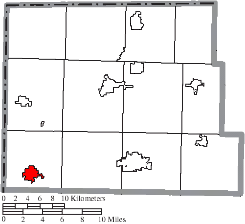 Map of the municipal and township boundaries of Williams County, Ohio, United States, as of the 2000 census, with the location of the village of Edgerton highlighted. Township borders are shown only in unincorporated areas in order to differentiate incorporated and unincorporated areas more clearly.